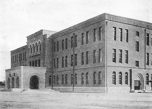 Keijo Judicial Building